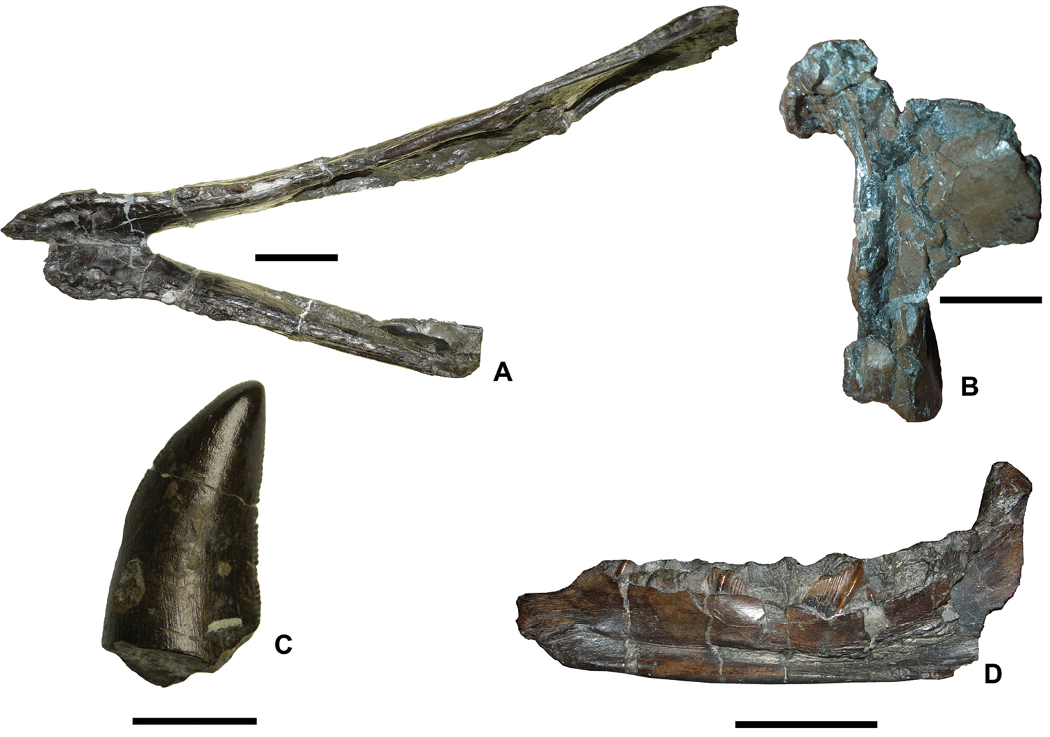 Representative taxa from the early Campanian Muthmannsdorf fauna from the Grünbach Formation, eastern Austria. A Doratodon carcharidens (Mesoeucrocodylia) mandible (PIUW 2349/57) in dorsal view (photo by Márton Rabi) B Indeterminate azhdarchid (Pterosauria, Azhdarchidae), left humerus (PIUW 2349/102) in anterior view C ‘Megalosaurus pannoniensis’ basal tetanuran (Theropoda, Tetanurae), tooth (PIUW uncatalogued) in lateral view D Mochlodon suessi (Ornithopoda, Rhabdodontidae), right dentary (holotype, PIUW 2349/2) in medial view. Scale bars equal 2 cm in A, B and D and 1 cm in C.